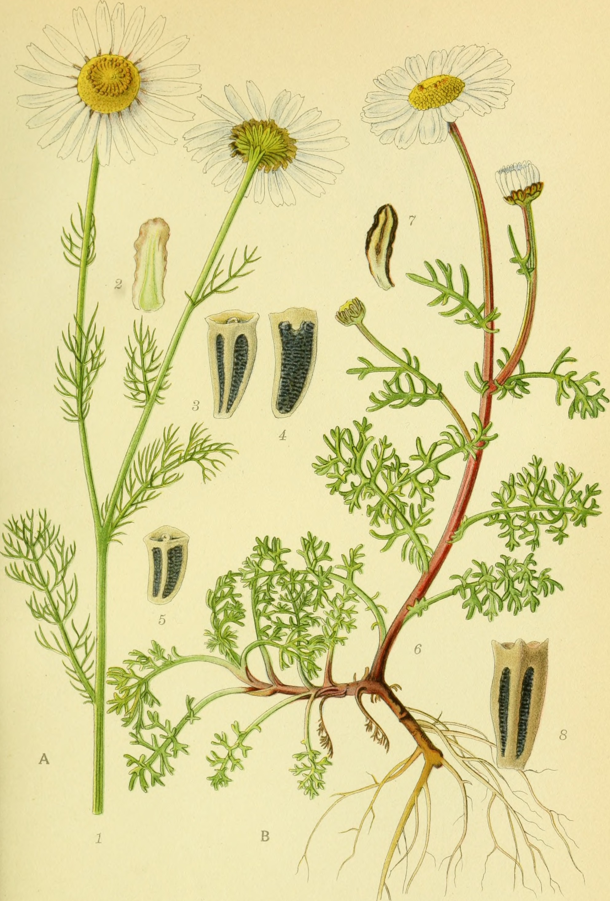 Title: Billeder af nordens flora Year: 1917 (1910s) Authors: Mentz, August, 1867-1944; Ostenfeld, C. H. (Carl Hansen), 1873-1931 Subjects: Plants; Plants; Plants Publisher: København, G. E. C. Gad's forlag Text Appearing Before Image: 535 Text Appearing After Image: LUGTLØS KAMILLE, A. matricaria inodora. B. M. inodora m a r i t i m a.